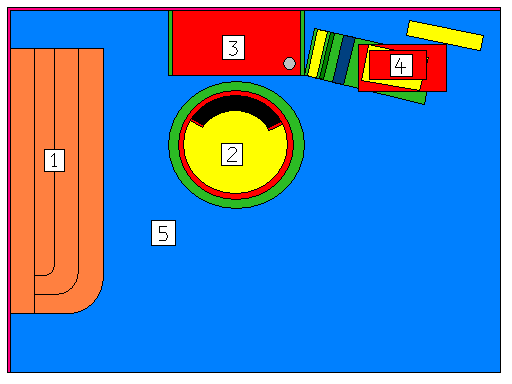 Map of the main film set of the french TV programme, Disney Club, in 1990 and 1991 (first and second season) diffused on TF1.